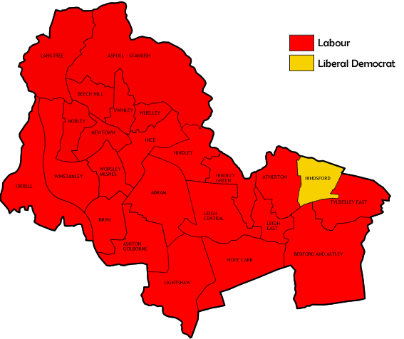 Wigan ward map with political colouring.